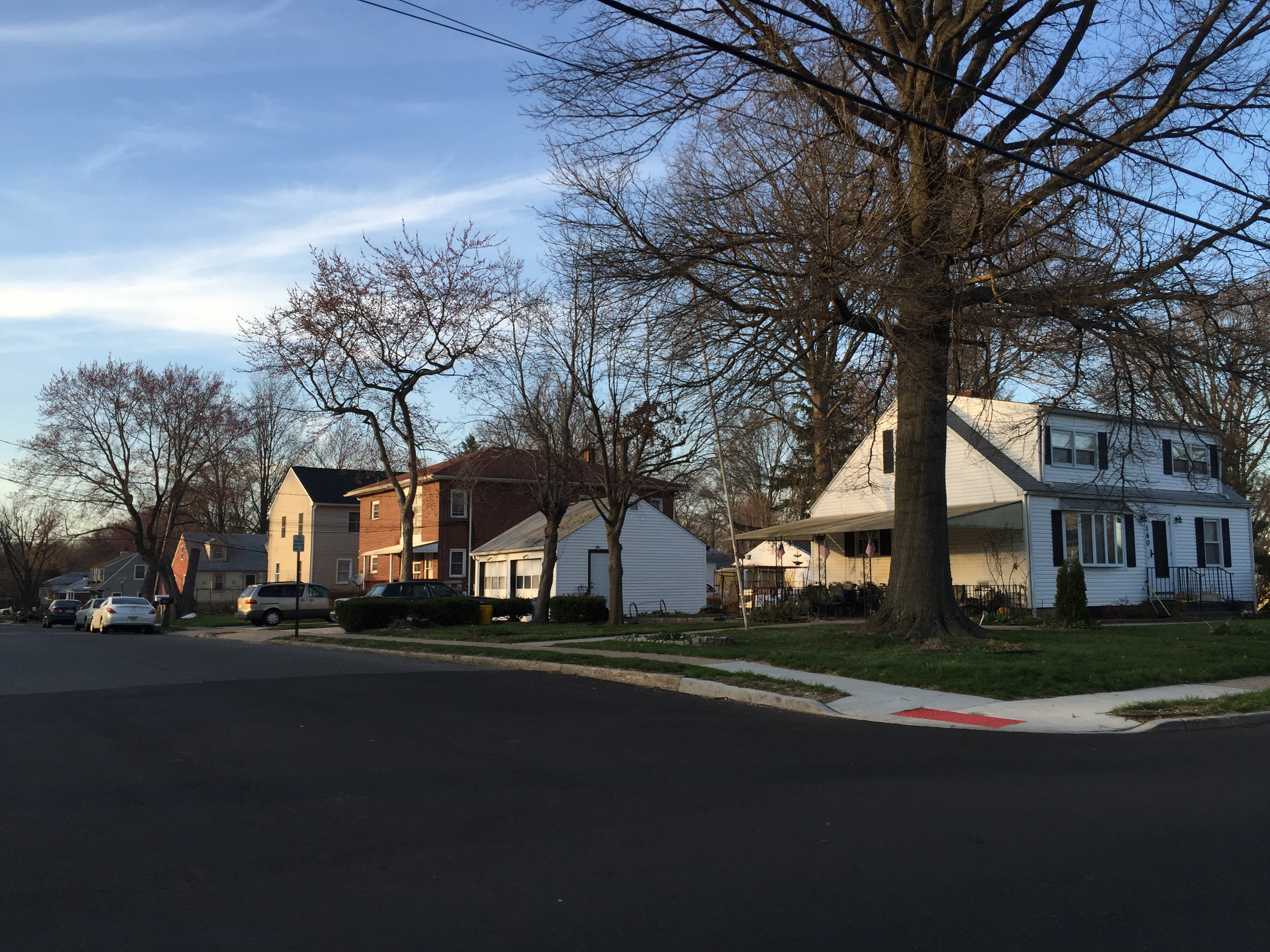 Homes along Browning Avenue in the Ewing Park section of Ewing, New Jersey